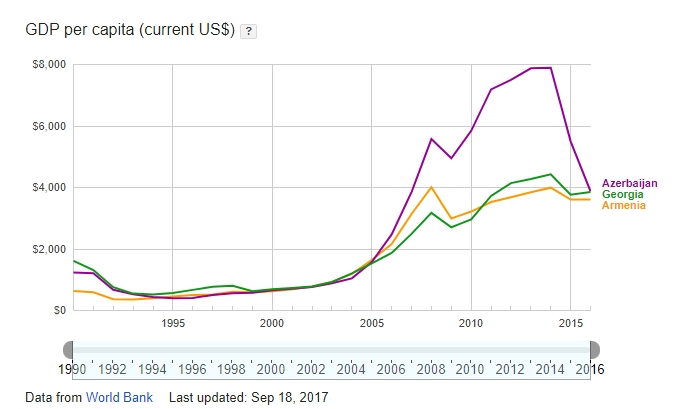 GDP of Armenia, Azerbaijan and Georgia in years 1990-2016, World Bank data.